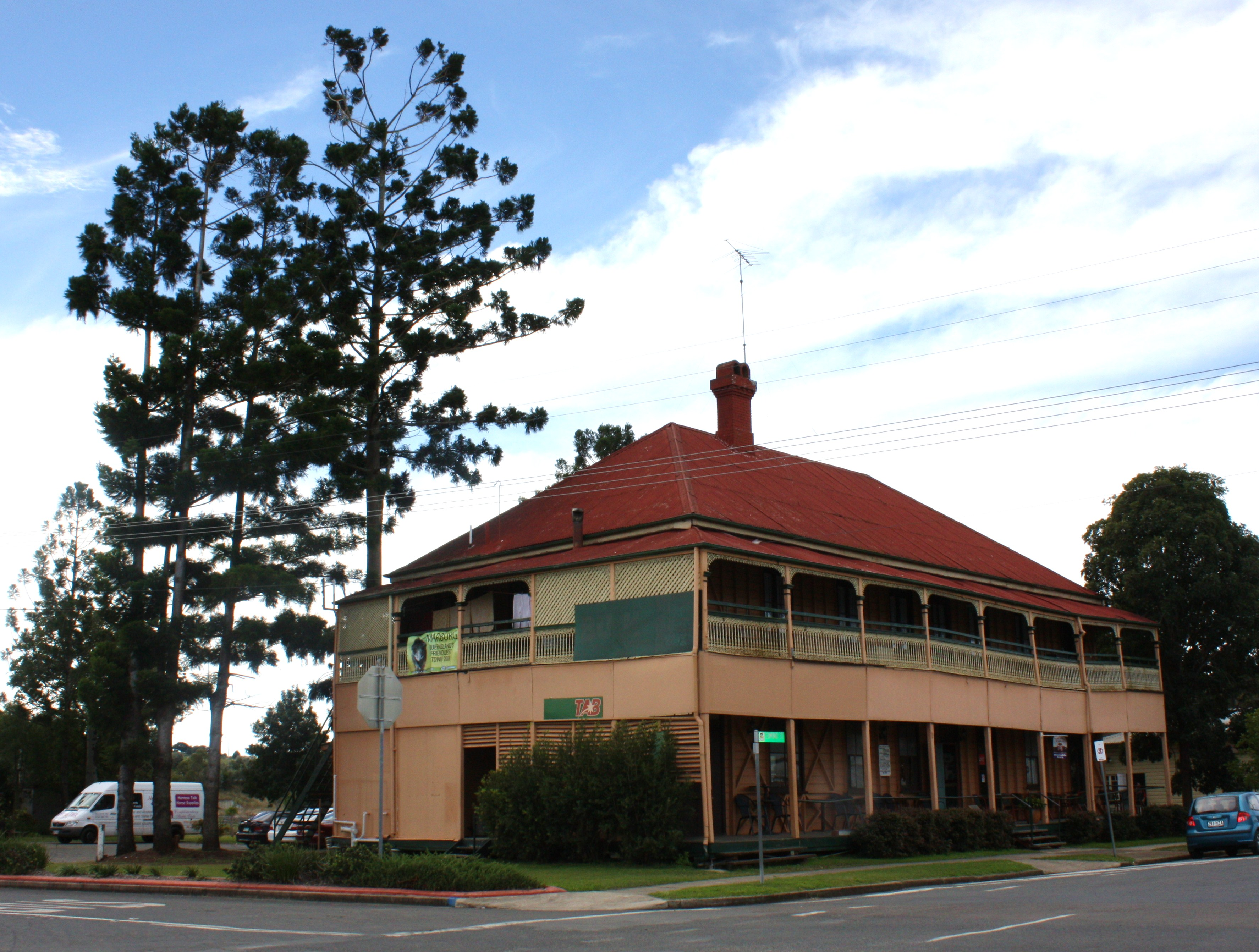 Heritage listed. The Marburg Hotel was the centrepiece of the film 'The Settlement'. The second storey of the building was added in 1885. Looks as though it could do with some propping up.